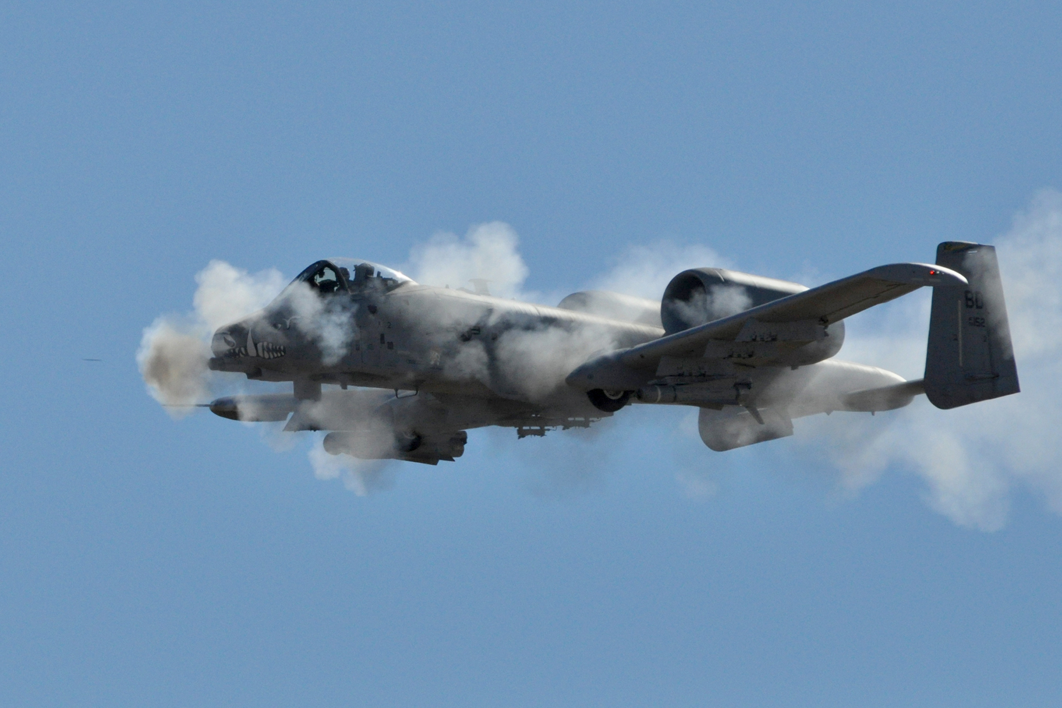 Capt. Jason Cobb fires a volley of 30-millimeter rounds Oct. 14, 2010, at a target on the Saylor Creek Range in Idaho during Hawgsmoke 2010. Captain Cobb is an A-10 Thunderbolt II pilot assigned to the Air Force Reserve Command’s 47th Fighter Squadron at Barksdale Air Force Base, La. He earned two personal awards during the competition. (U.S. Air Force photo by Tech. Sgt. Jeff Walston)